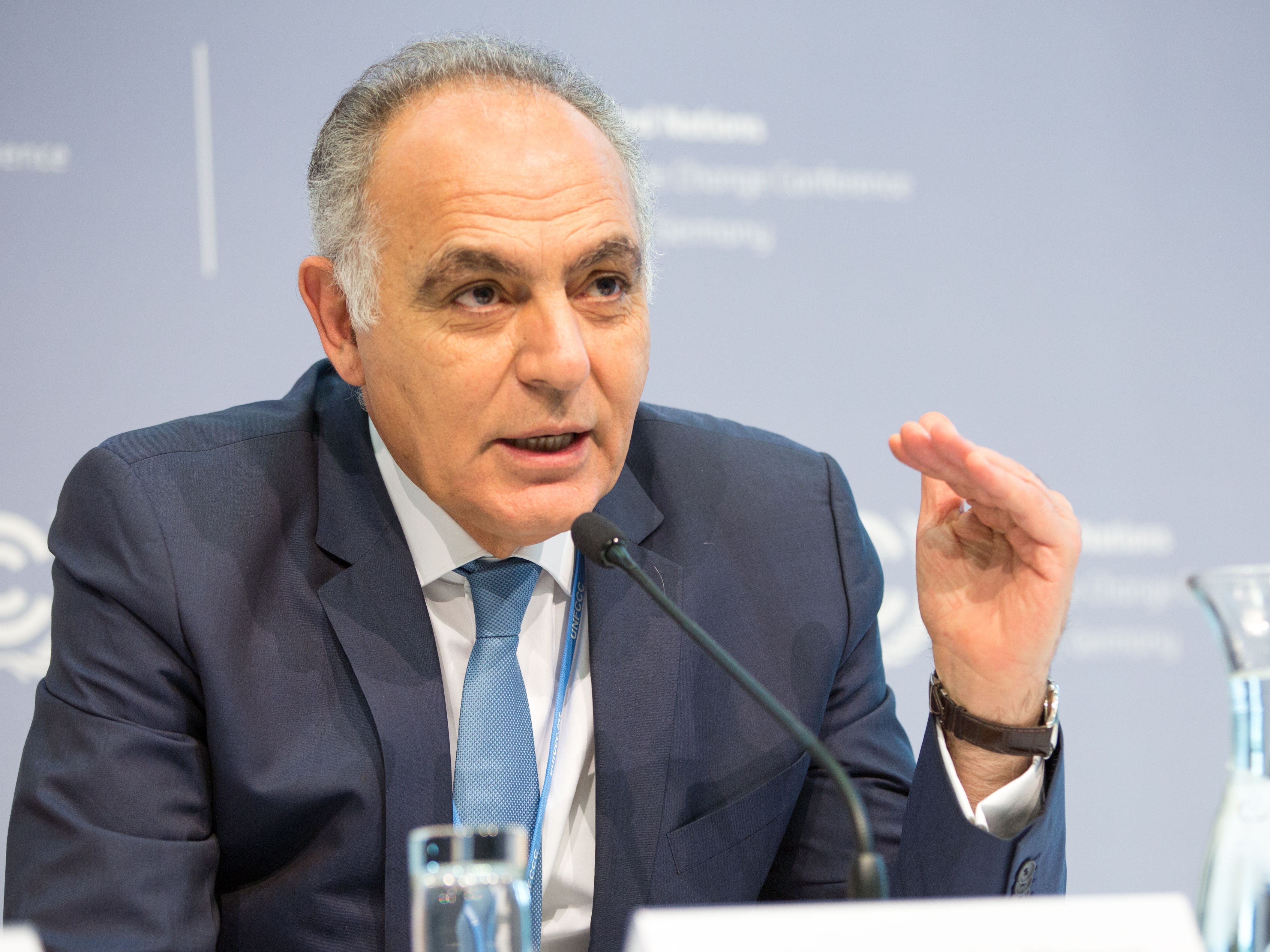 Salaheddine Mezouar at the Bonn Climate Change Conference May 2016